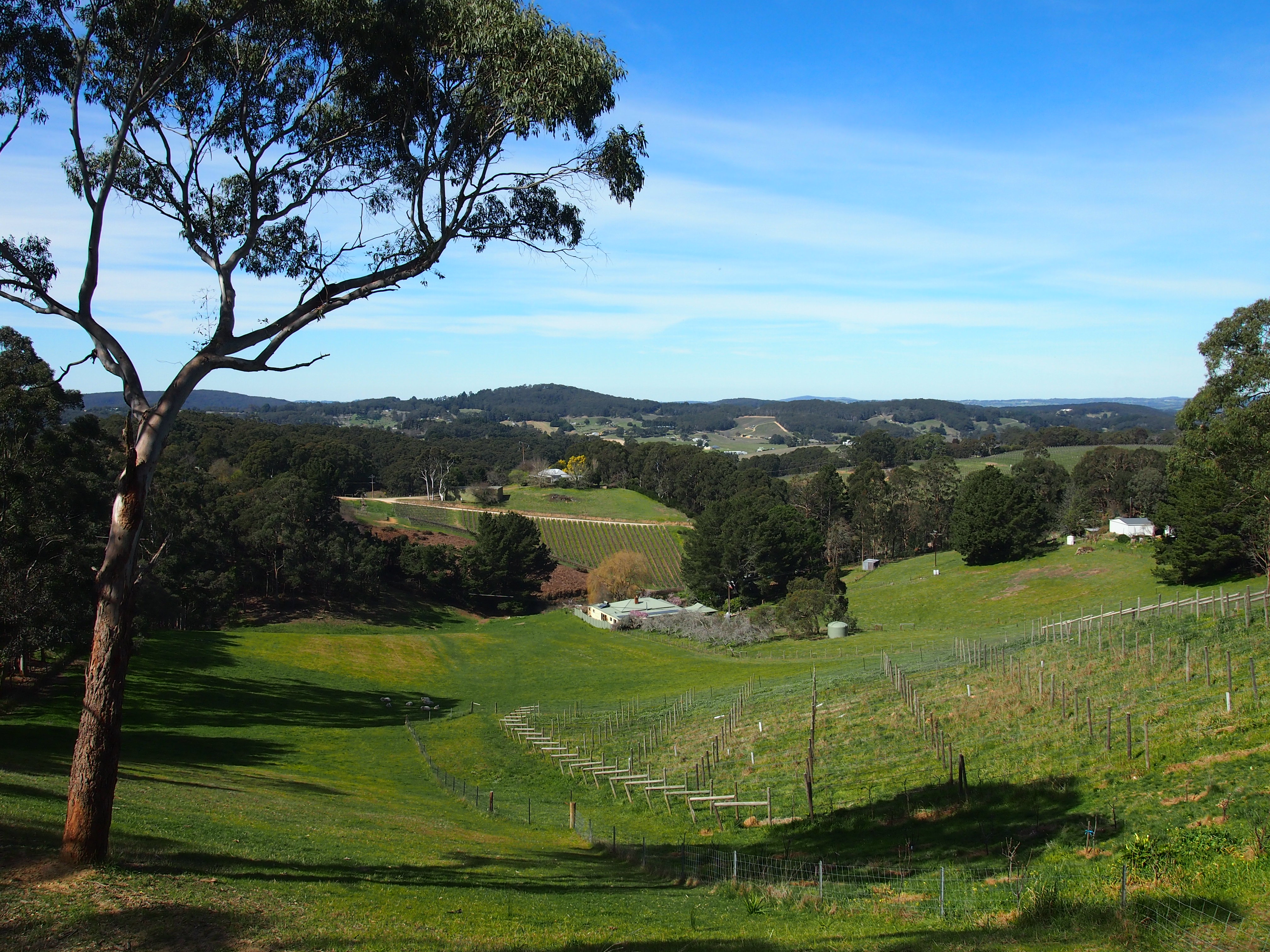 View SE across the Piccadilly Valley from the Mount Lofty Scenic Route. The summit of Mount Barker, 22 km away, can be seen on the horizon. Original filename = P8274102.JPG